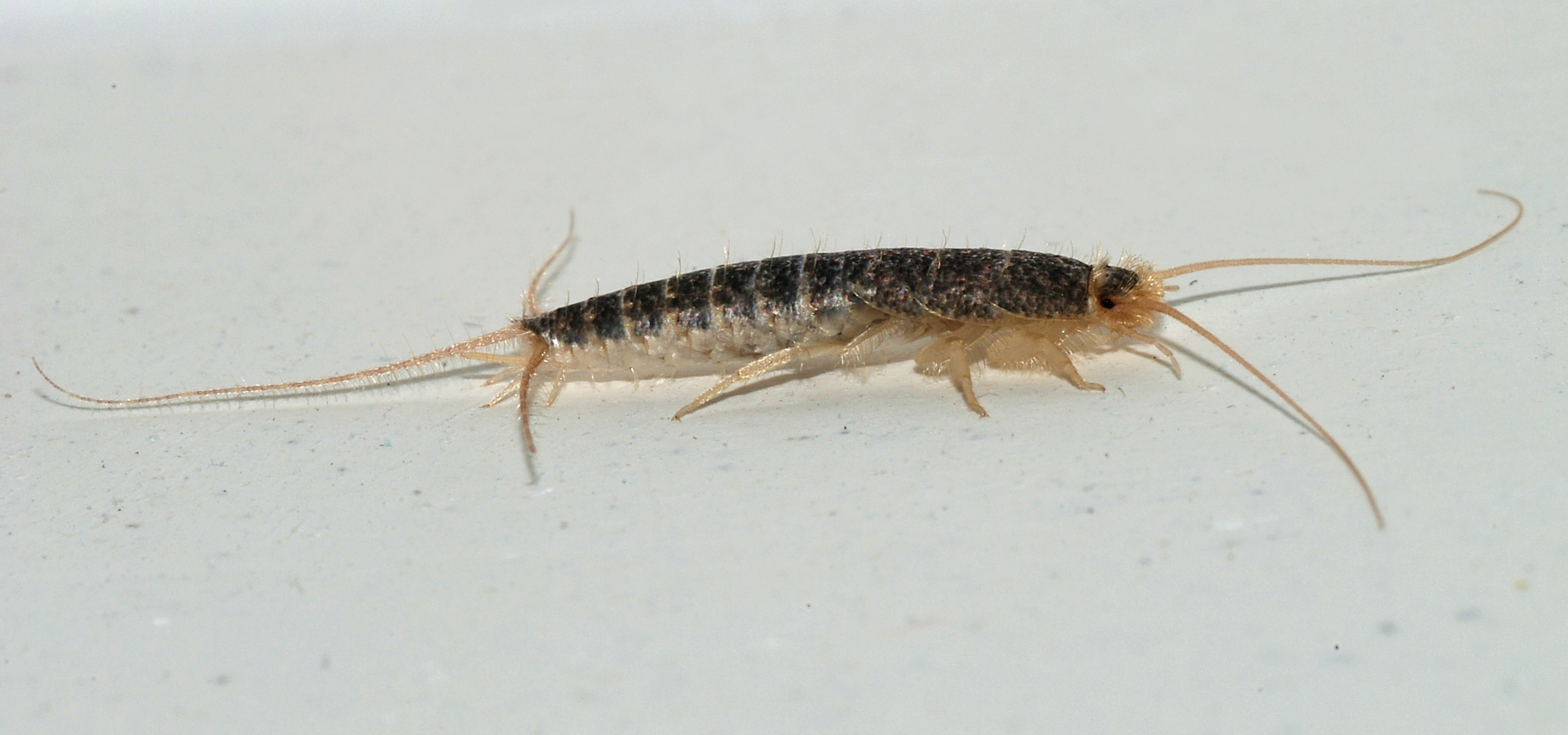 A Grey Silverfish (Ctenolepisma longicaudata).